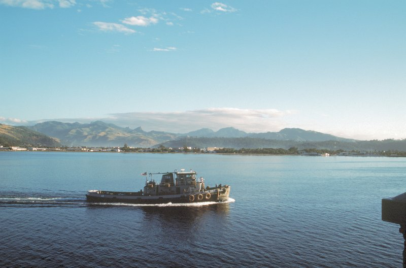 Starboard broadside view of Mandan (YTB-794) underway in the harbor at Naval Station Subic Bay, Luzon, P.I., 8 December 1990 DVIC photo # DNST9102903 by PH3 Andrew. C. Heuer, USN